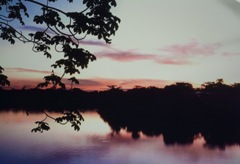 Sunset Tumi Chucua, Bolivia Jungle 2013.